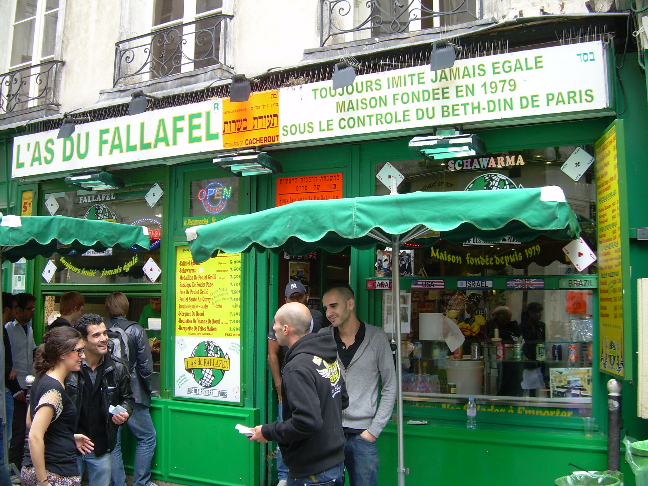 Entrance to the L'As du Fallafel restaurant, Le Marais, Paris